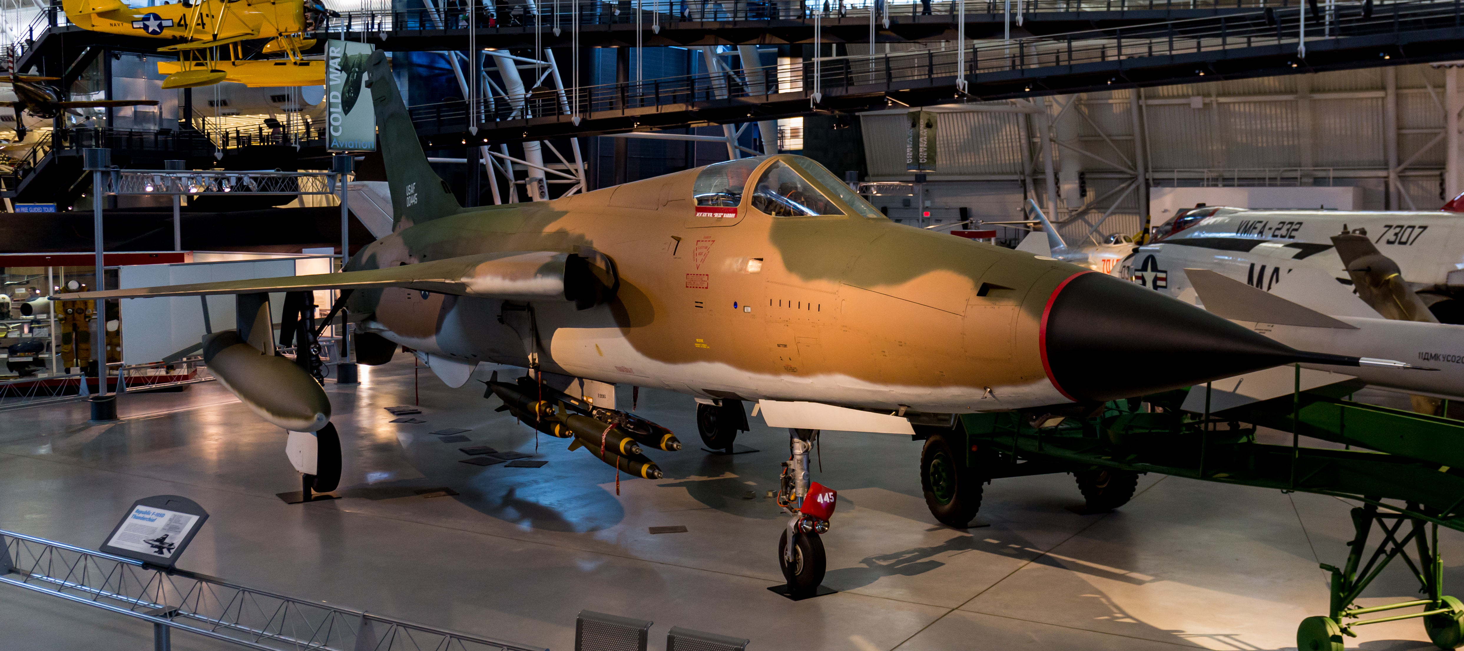 An F-105D Thunderchief (60-0445) on display at the Smithsonian National Air and Space Museum Udvar-Hazy Center.